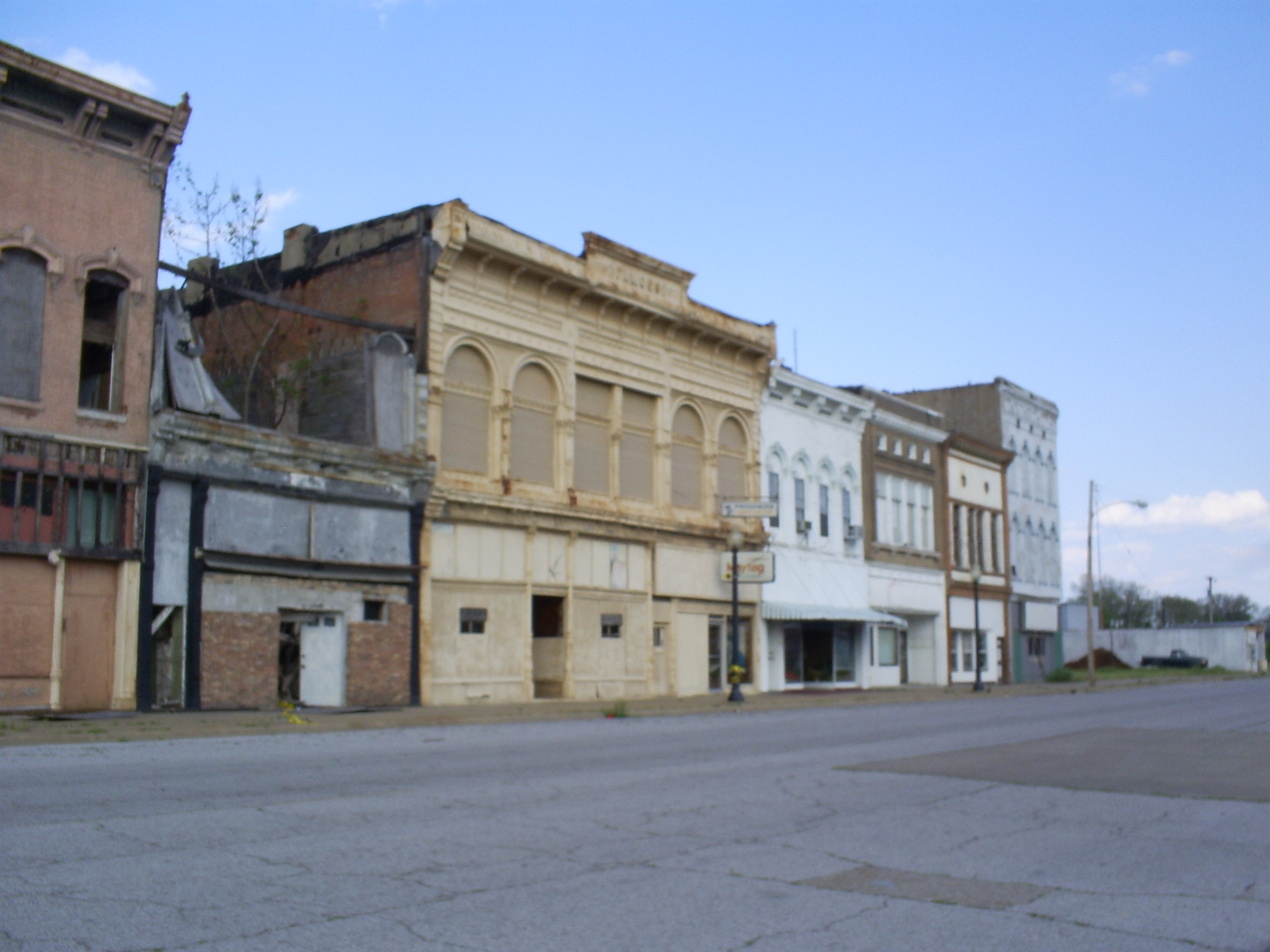 Abandoned buildings on the street in Cairo, Illinois, United States.